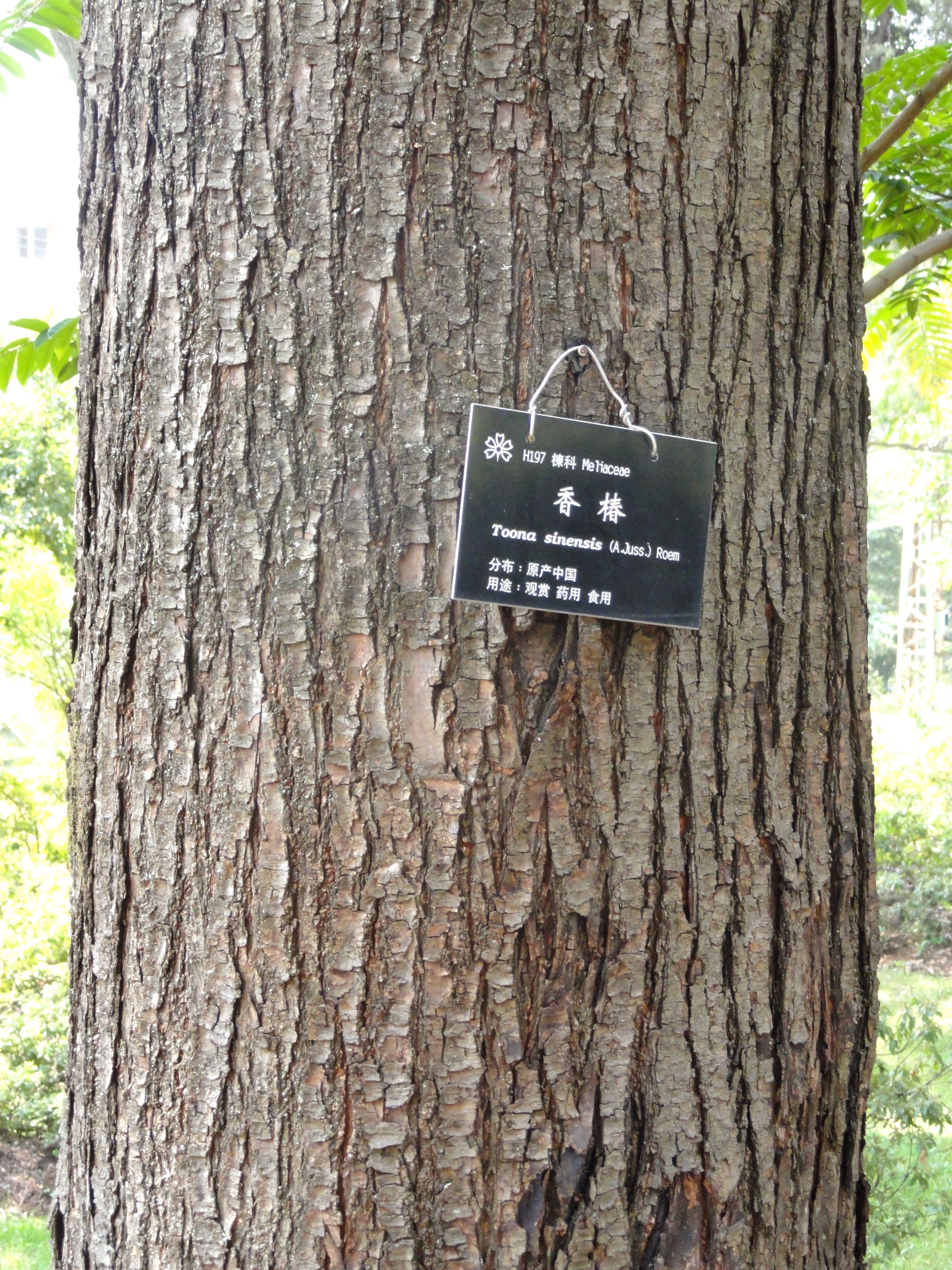 Plant specimen in the Kunming Botanical Garden, Kunming, Yunnan, China.